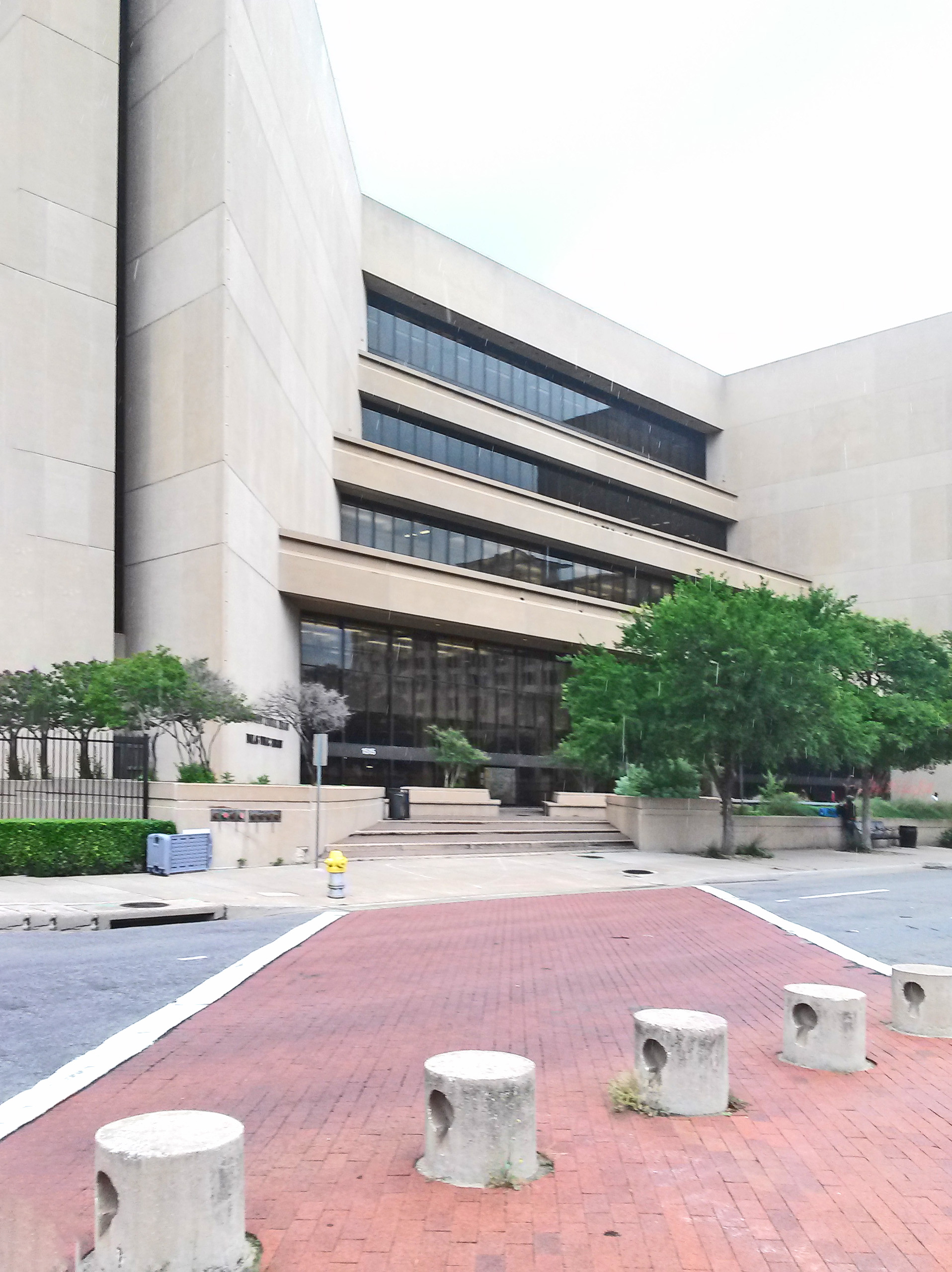 J. Erik Jonsson Central Library, Downtown Dallas, May 2015